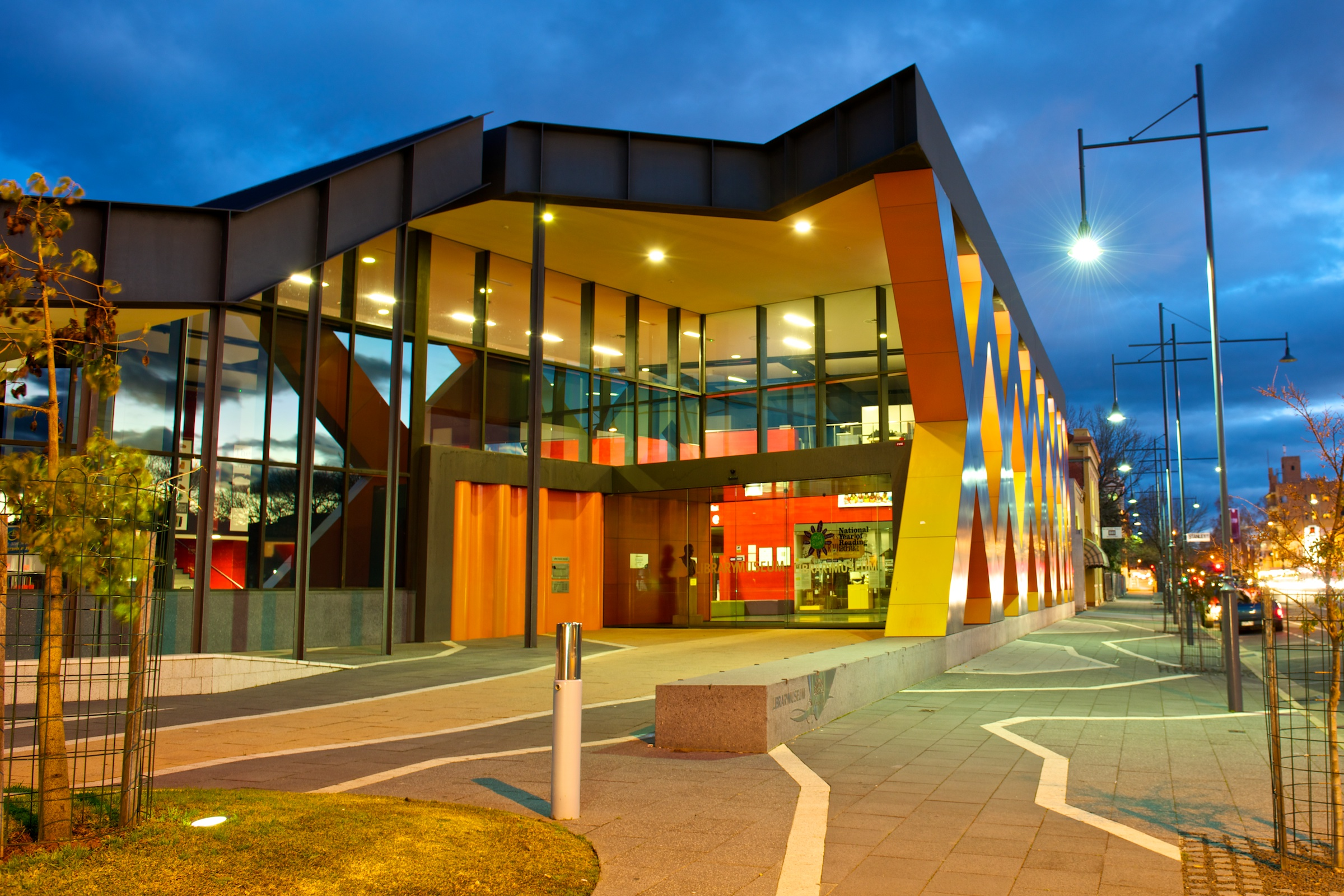 Albury City LibraryMuseum, located in Kiewa Street, Albury, New South Wales, Australia